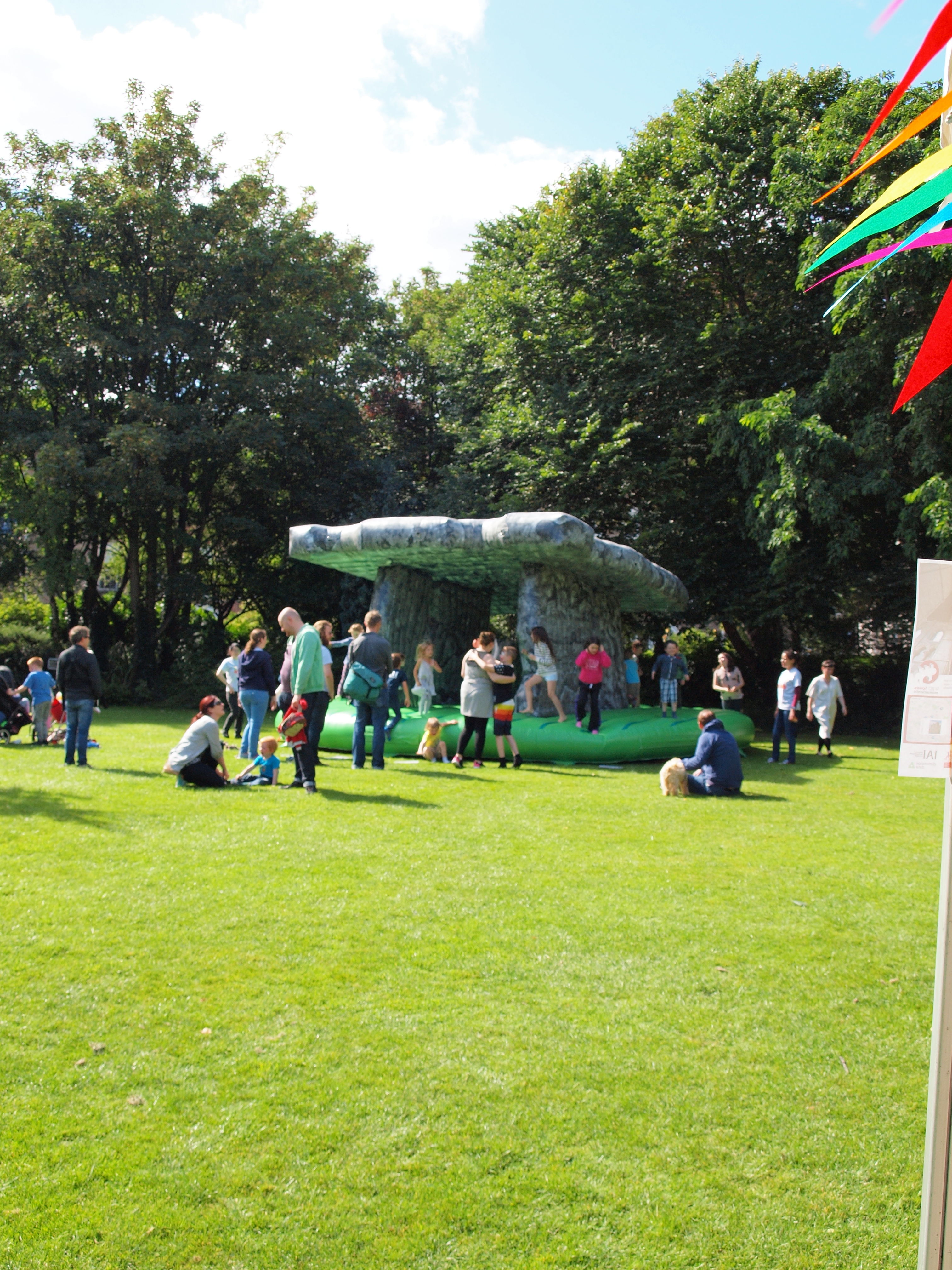 A bouncy dolmen at Wiki Loves Monuments Ireland 2015 Launch at Archaeo Fest, Merrion Square, Dublin, 29th August 2015.